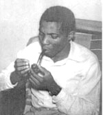 Christopher Okigbo photo